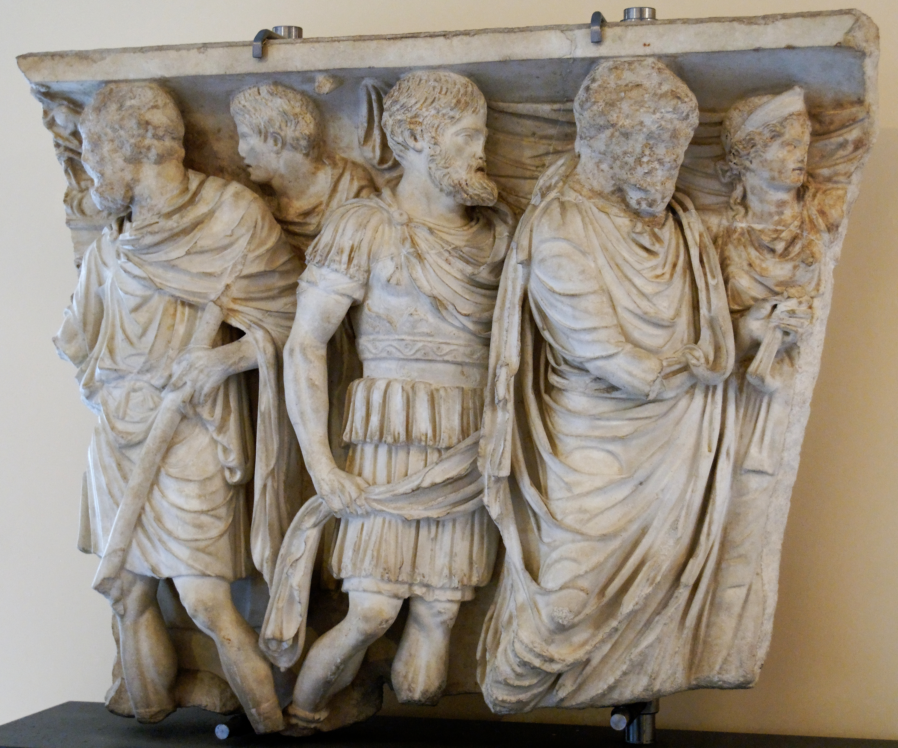 Scenes showing various aspects of the life of the deceased: from left to right, a religious procession, the deceased with military cloak and breastplate, his wedding; fragment of a sarcophagus. Parian marble, Roman artwork, middle of the 2nd century AD. From the Via Crotone, Rome, 1941.